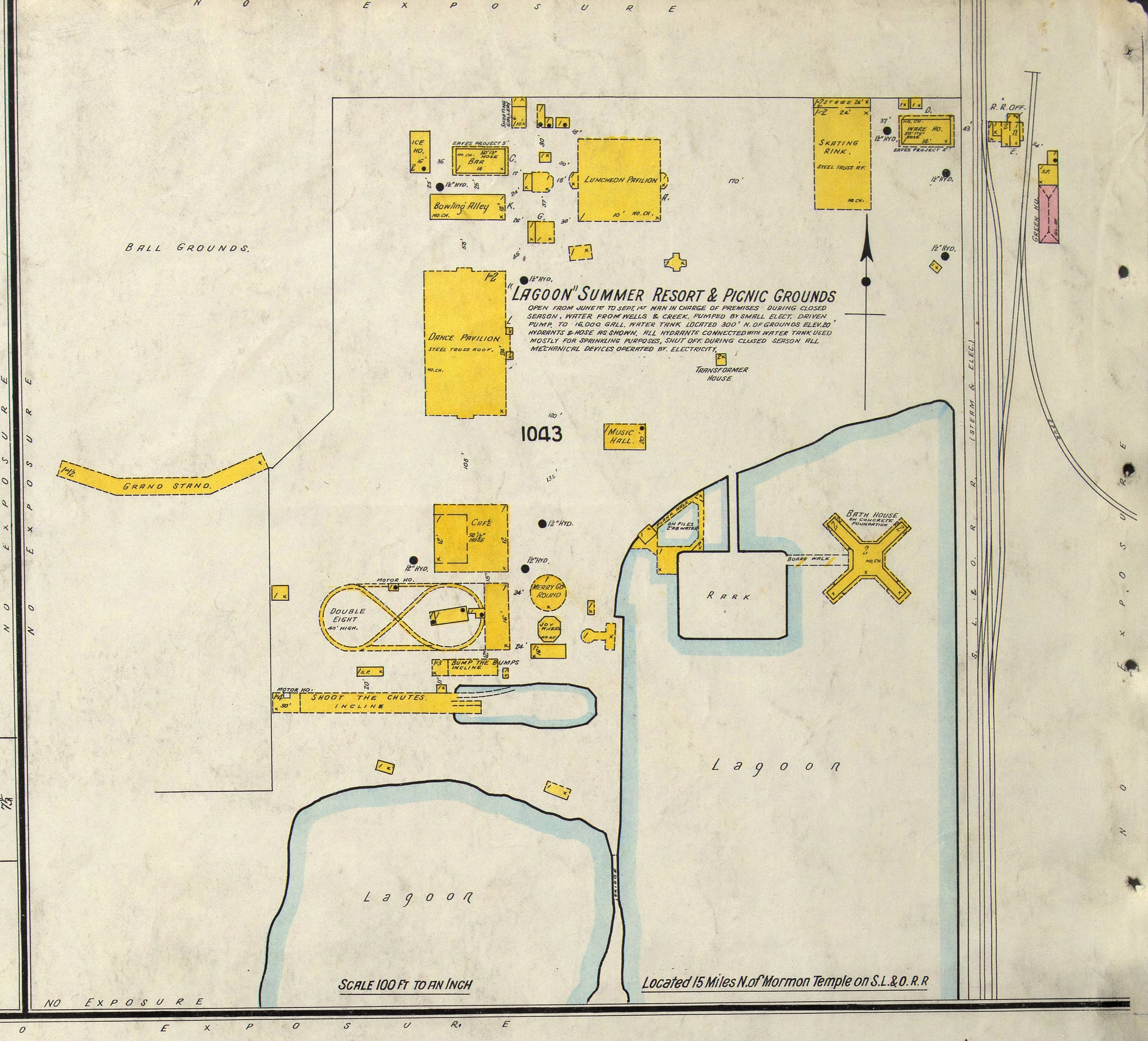 A map of Lagoon Amusement Park in 1911. Showing the location of old rides, buildings, and lagoons.